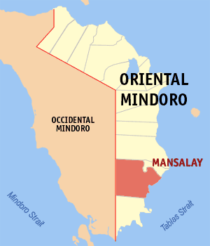 Map of Oriental Mindoro showing the location of Mansalay